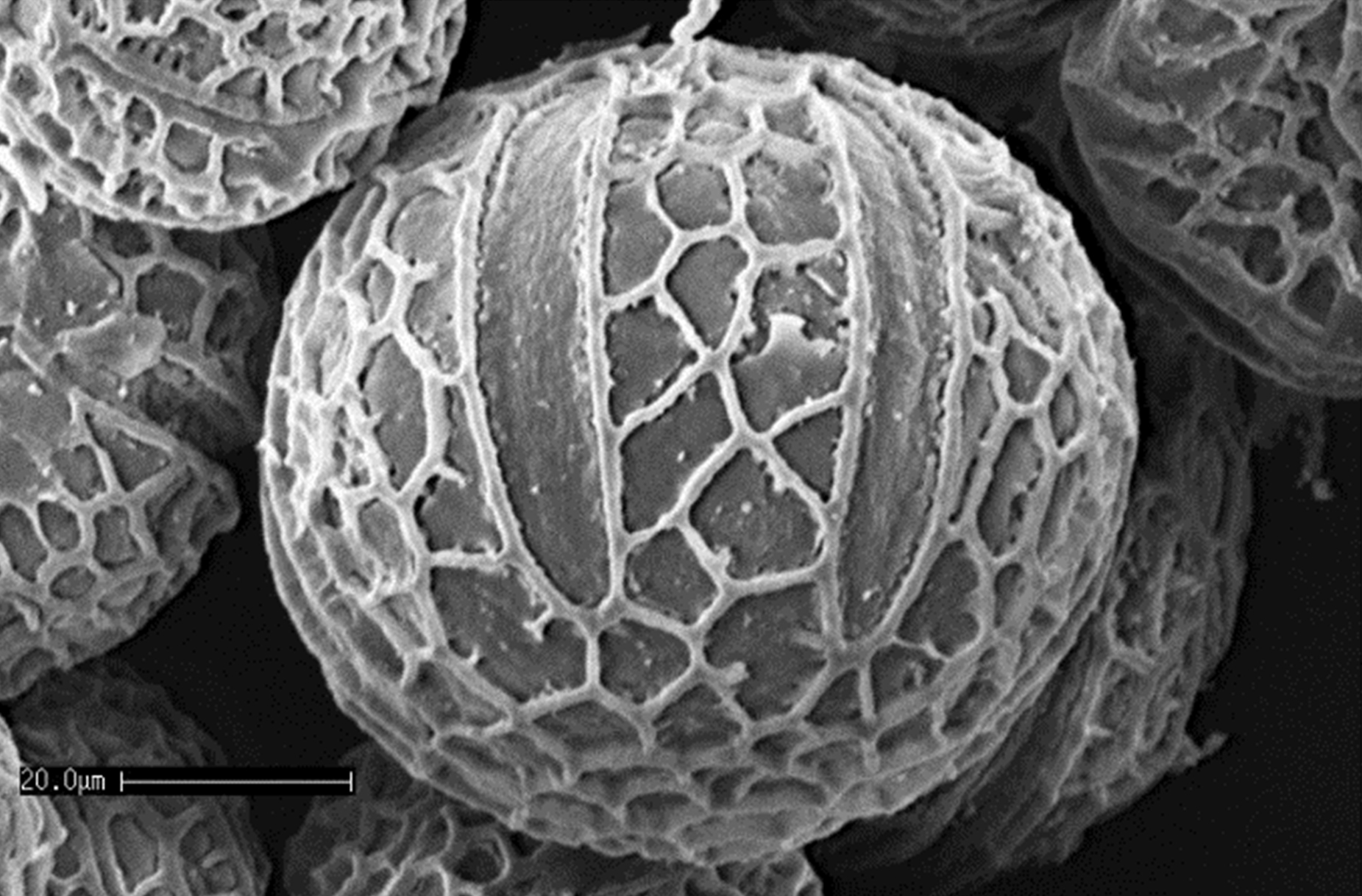 Pollen of Orthosiphon stamineus prepared using the freeze drying method , SEM image.